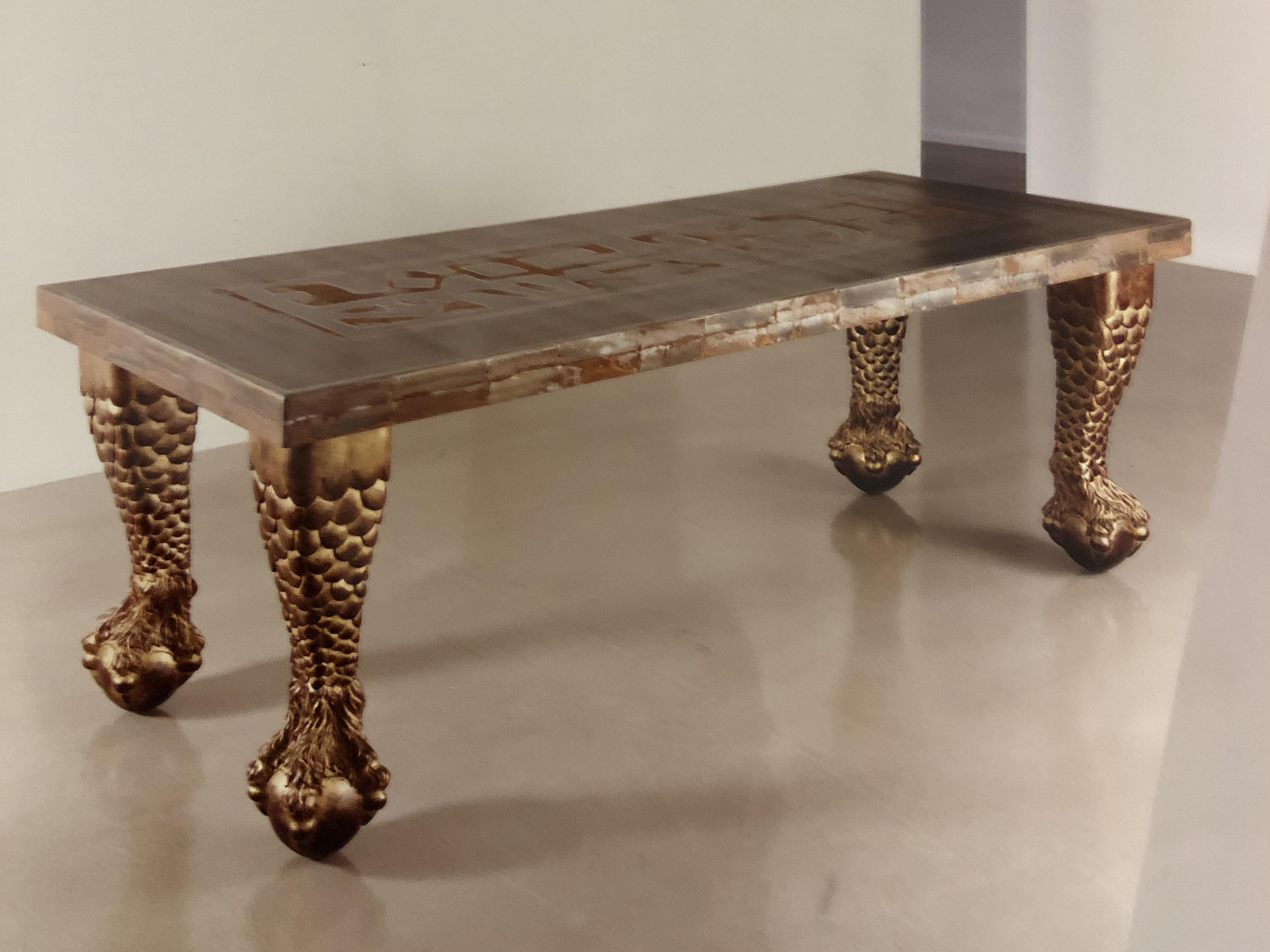 BAKUBA GRIFFIN DINING TABLE. Part of the Mint Museum of Architecture's permanent Collection.